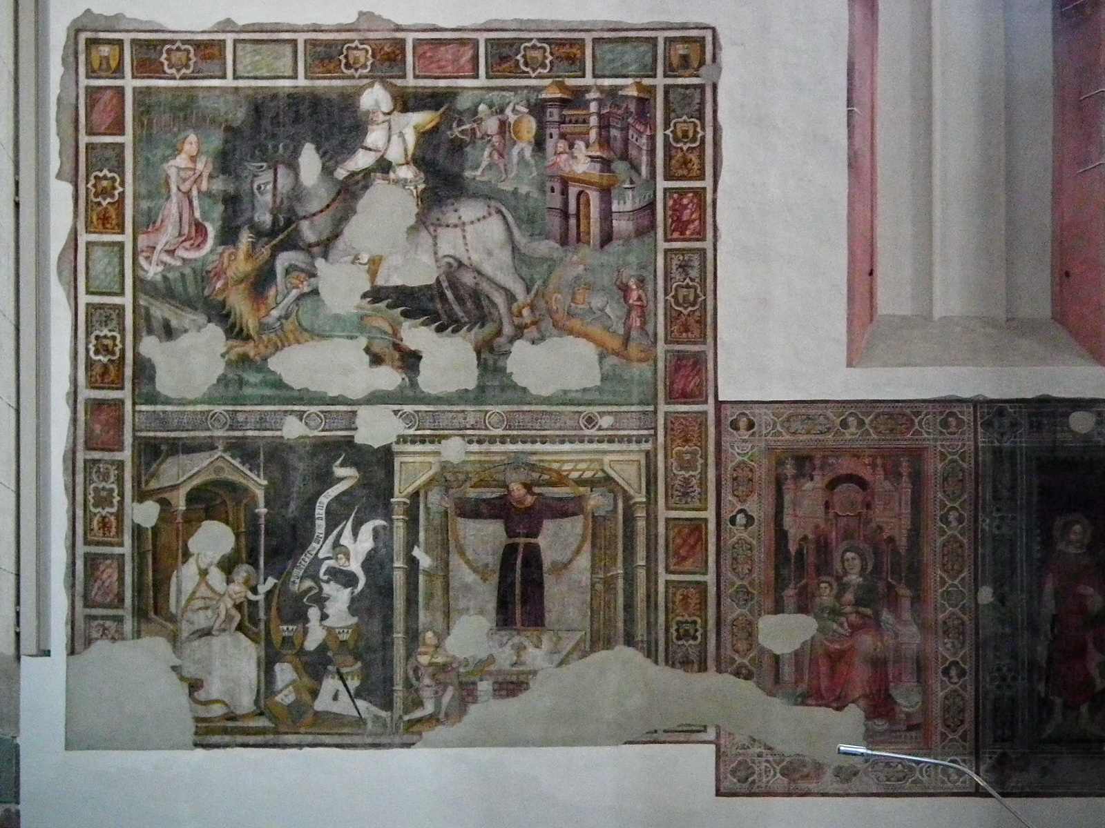 Church of the Dominican Order Native nameChiesa dei DomenicaniLocationBolzano, ItalyCoordinates46° 29′ 51.39″ N, 11° 21′ 07.39″ E